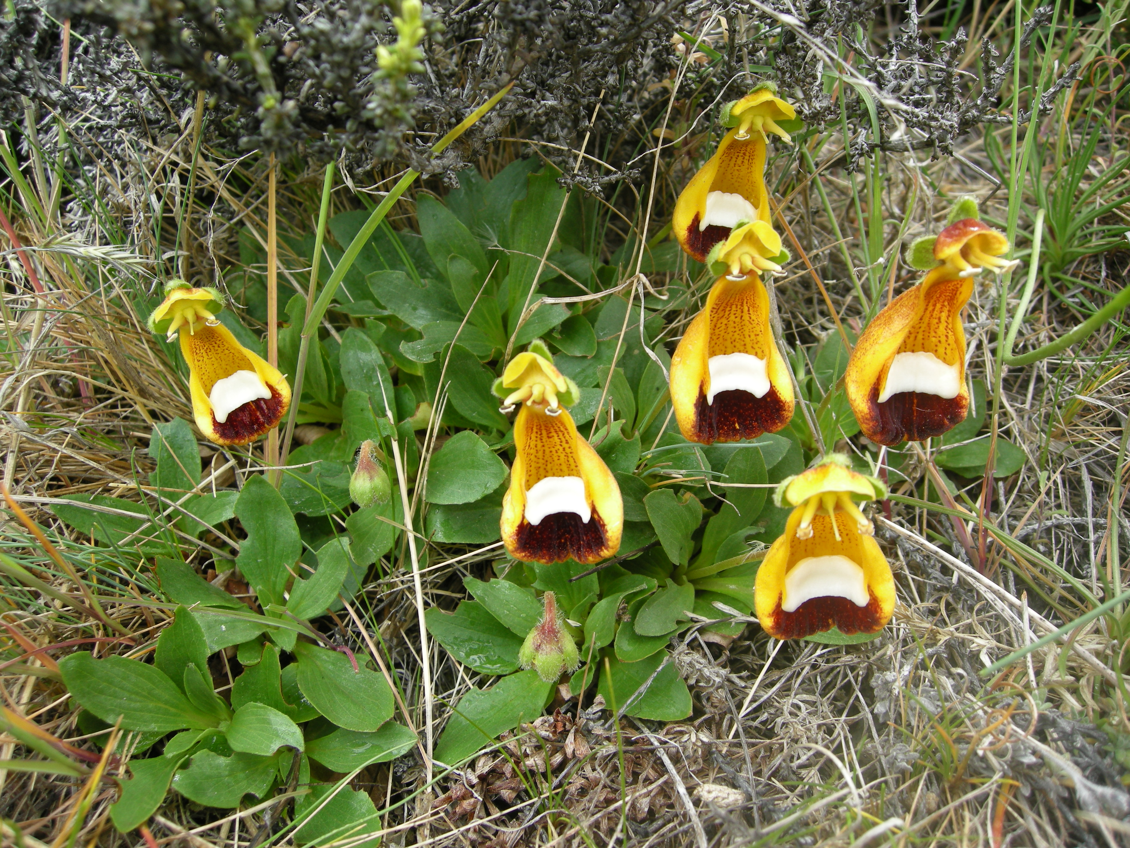 General view of the species Calceolaria uniflora. Picture taken in Belgrano peninsula, in the Perito Moreno national park (Santa Cruz provincia, Argentina).